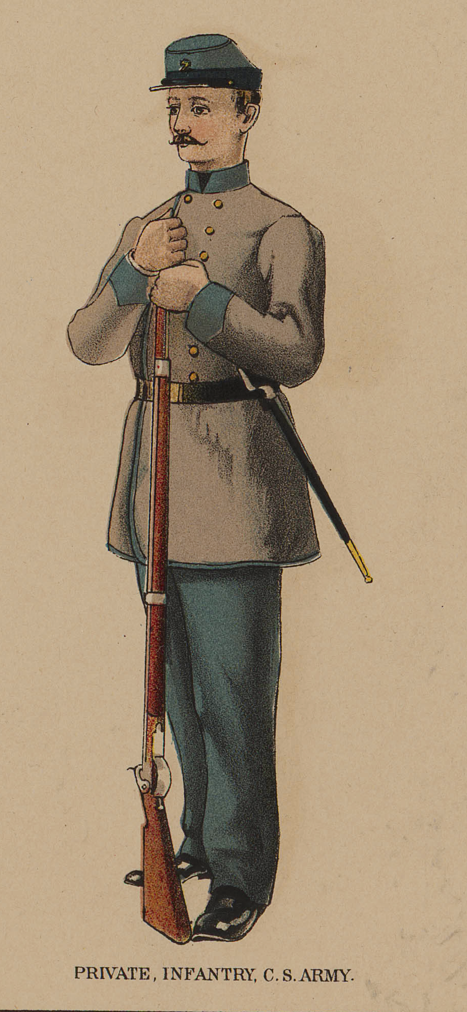 Confederate private infantry uniform, from plate 172 of the "Atlas to Accompany the Official Records of the Union and Confederate Armies," containing illustrations of uniforms worn by Union and Confederate soldiers during the American Civil War